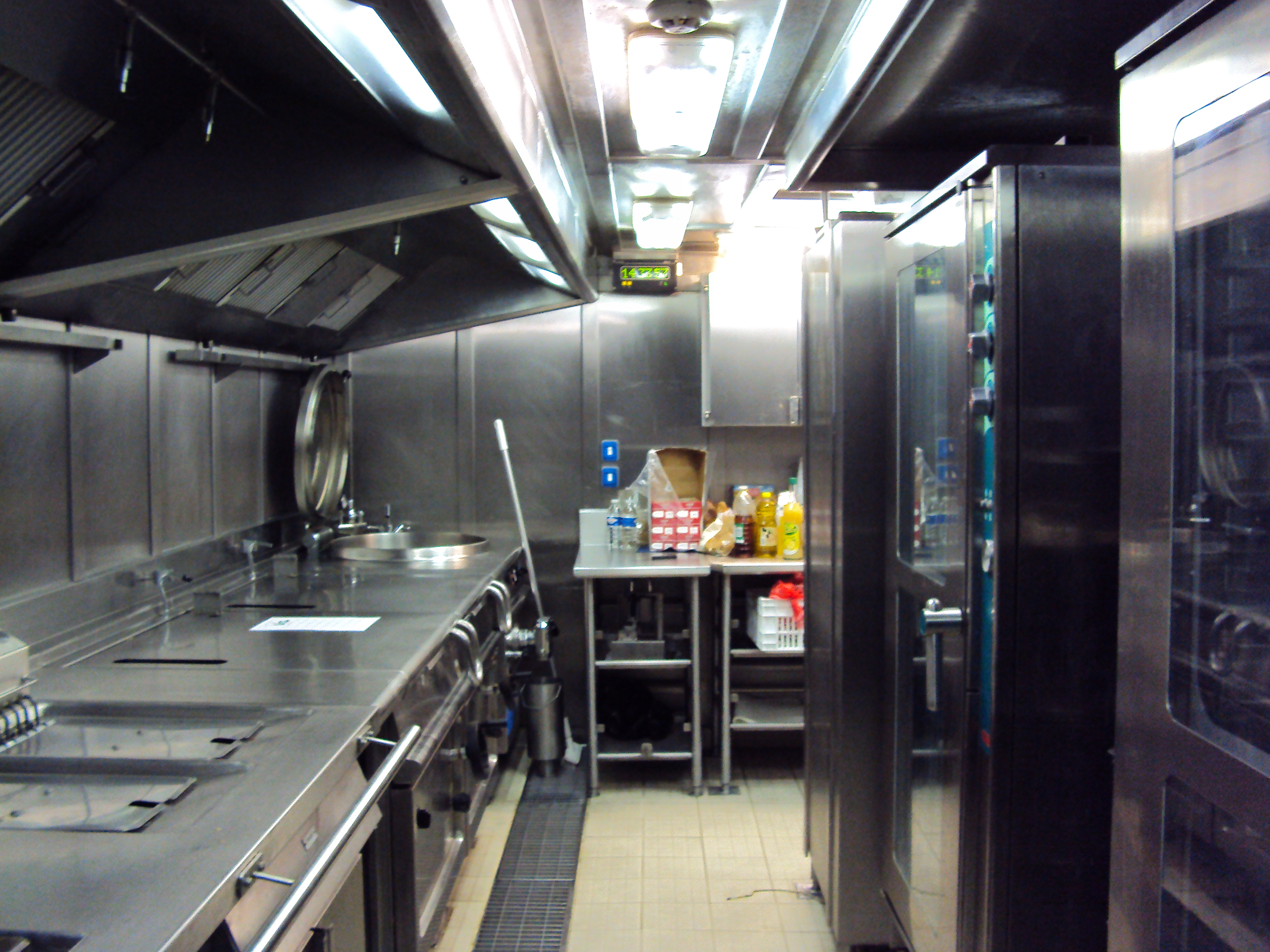 Frigate Forbin view of the on board kitchen